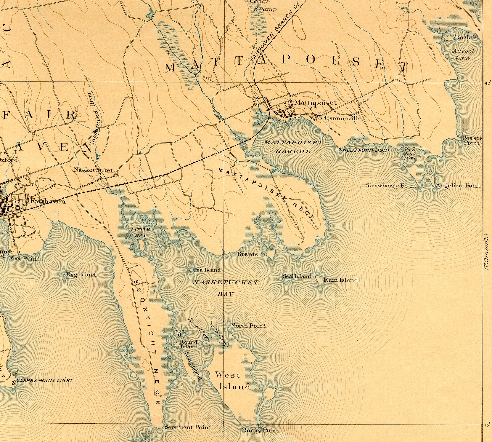 Map showing Nasketucket River and vicinity, near Fairhaven, Massachusetts.